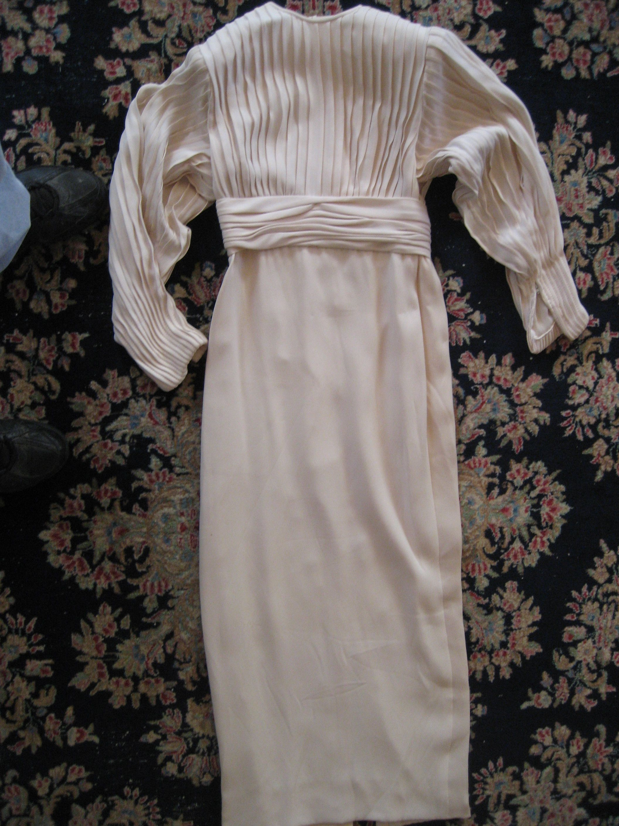 This is a picture of a pleated silk chiffon Galanos gown circa 1985. I took the photo myself.